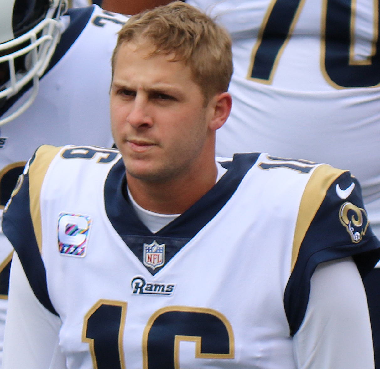 Jared Goff, a National Football League player.